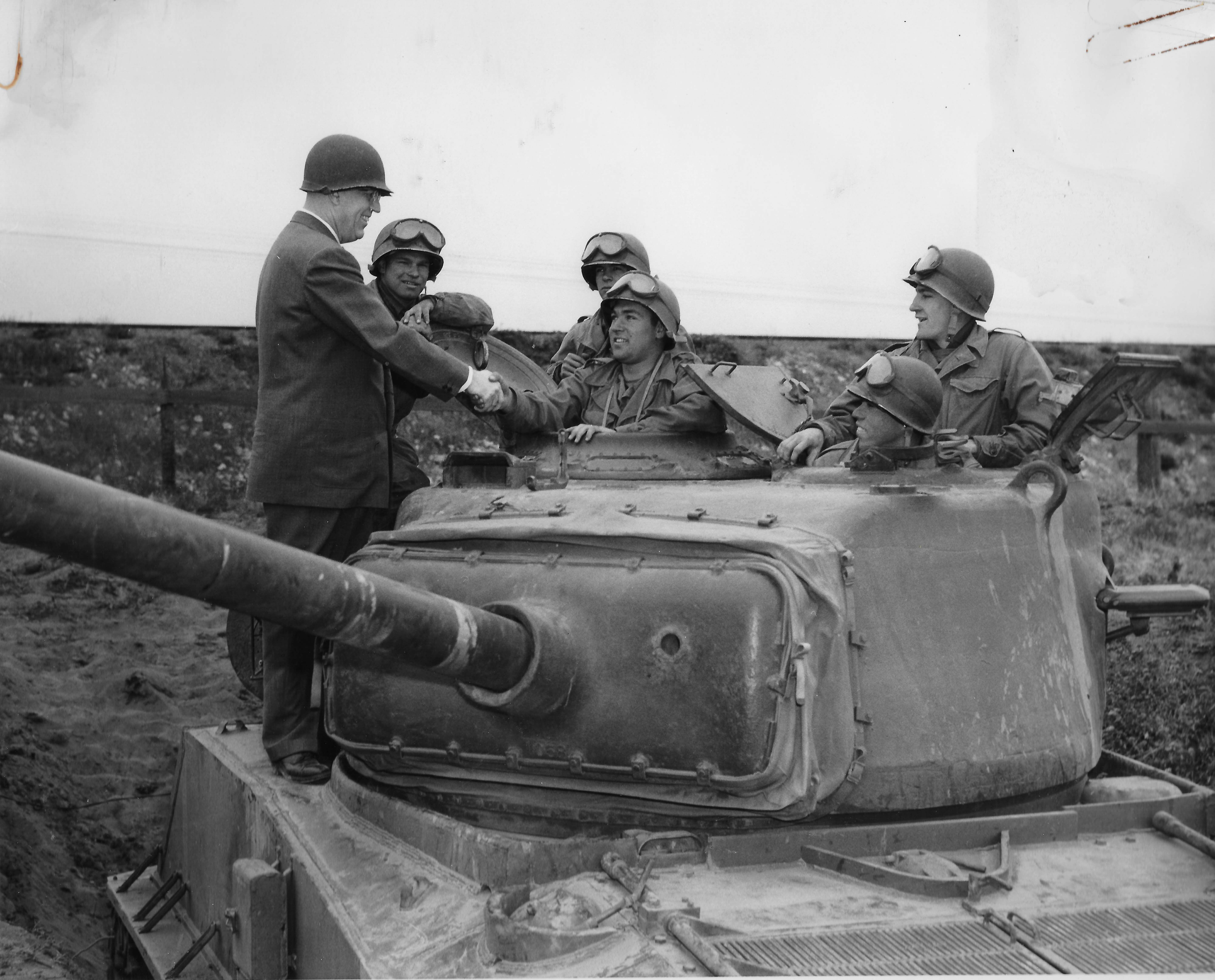 Governor Earl Warren stopped during his inspection of training maneuvers at the California National Guard's 49th Infantry Division summer camp at Camp Cook to talk to the members of a tank crew of the 2nd Battalion, 111th Armored Cavalry Regiment (Light) from Red Bluff. Left to right, crew members are Pvt. M.H. Stephens, Cpl. David Valente, Sgt. Frank Wikoff, Pvt. Raymond Oyler, and PFC Robert Darrow